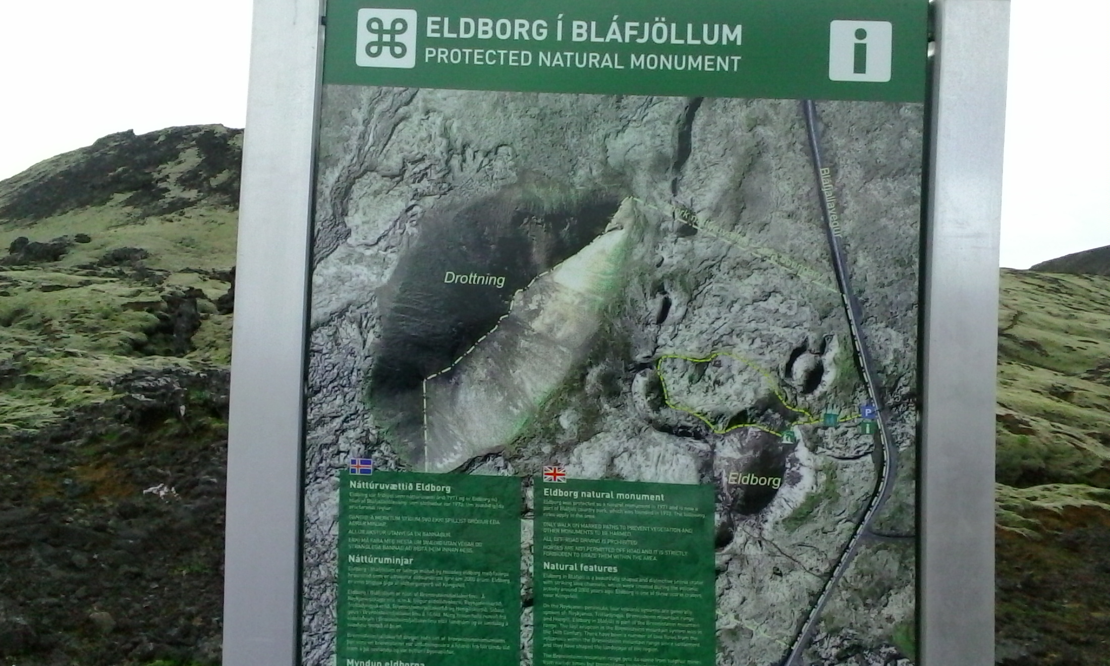 Eldborg crater, Bláfjöll, Southwest Iceland